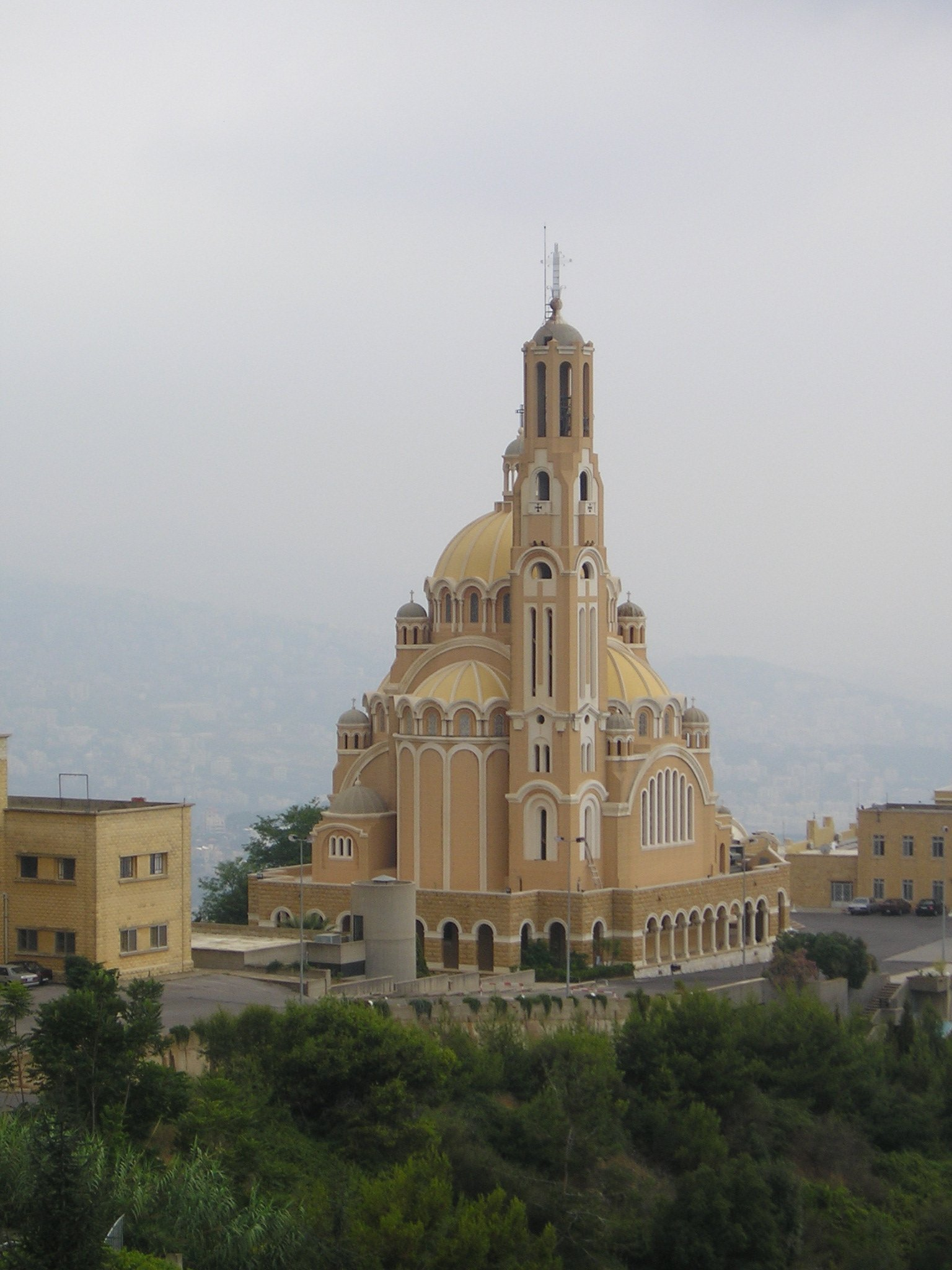 Harissa above Jounieh, Lebanon - Greek Catholic St. Paul basilica